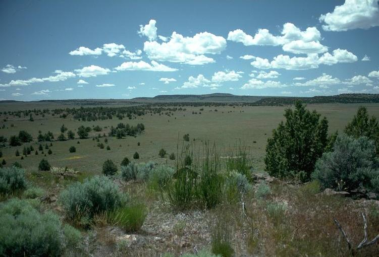 Oregon High Desert near Fish Lake, northwest of Frenchglen, Harney County, Southeast Oregon.